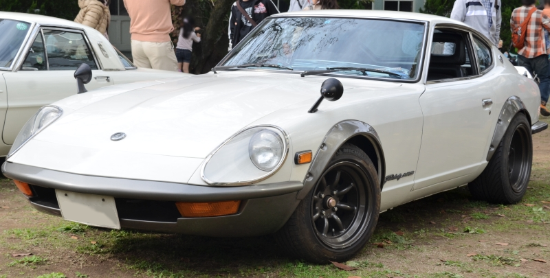 Nissan Fairlady 240Z-G